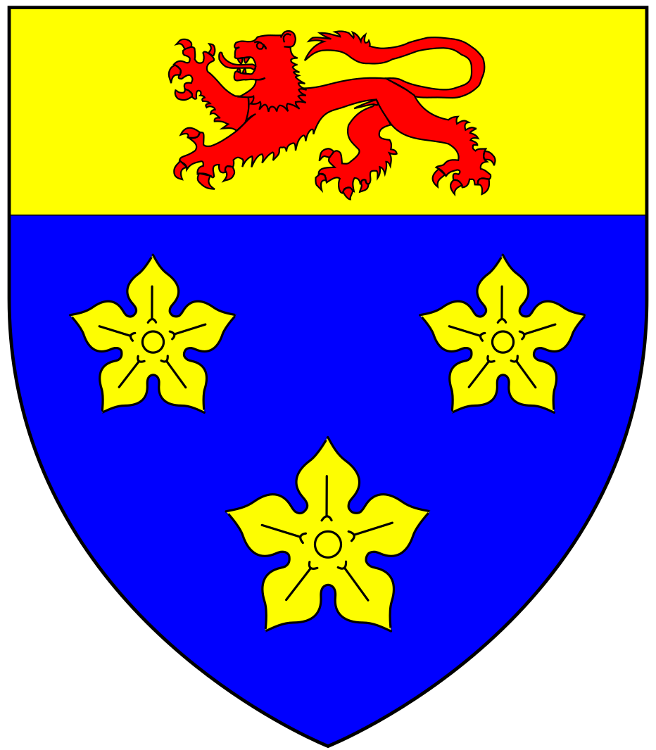 Arms of Sir John Davie, 1st Baronet (d.1654) of Creedy, Sandford, Devon, as seen on the mural monument to his wife in Sandford Church and as blazoned in Vivian, Lt.Col. J.L., (Ed.) The Visitation of the County of Devon: Comprising the Heralds' Visitations of 1531, 1564 & 1620, Exeter, 1895, p.269: Azure, three cinquefoils or on a chief of the last a lion passant gules